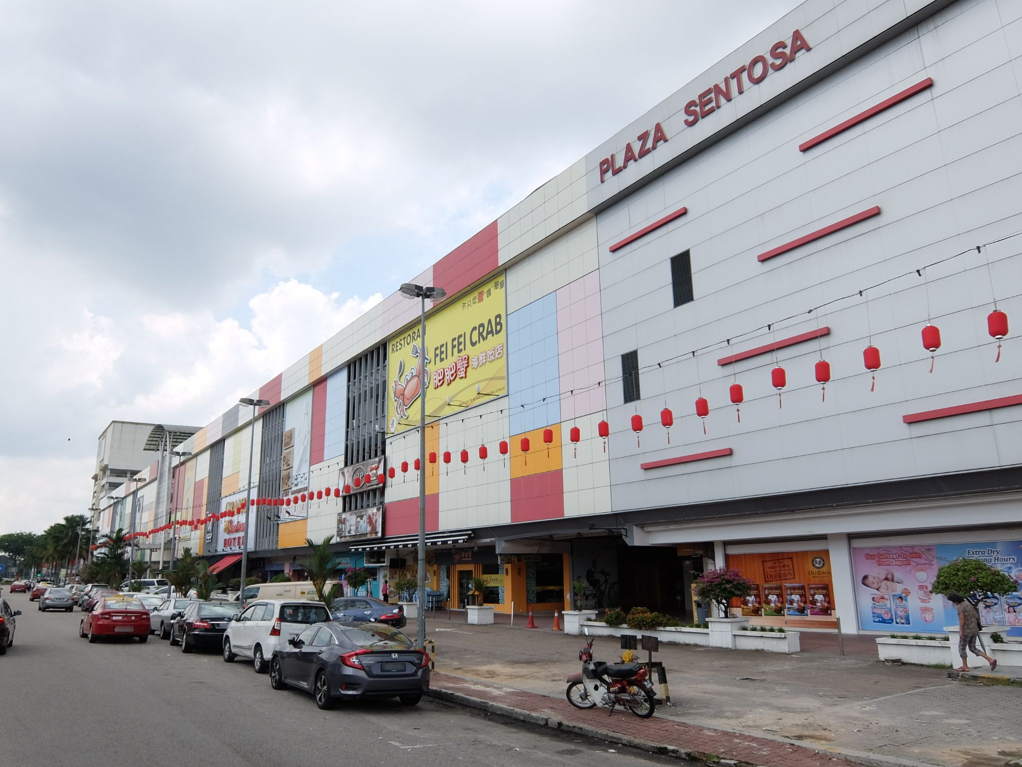 Sentosa Plaza, Taman Sentosa, Johor Bahru, Johor, Malaysia